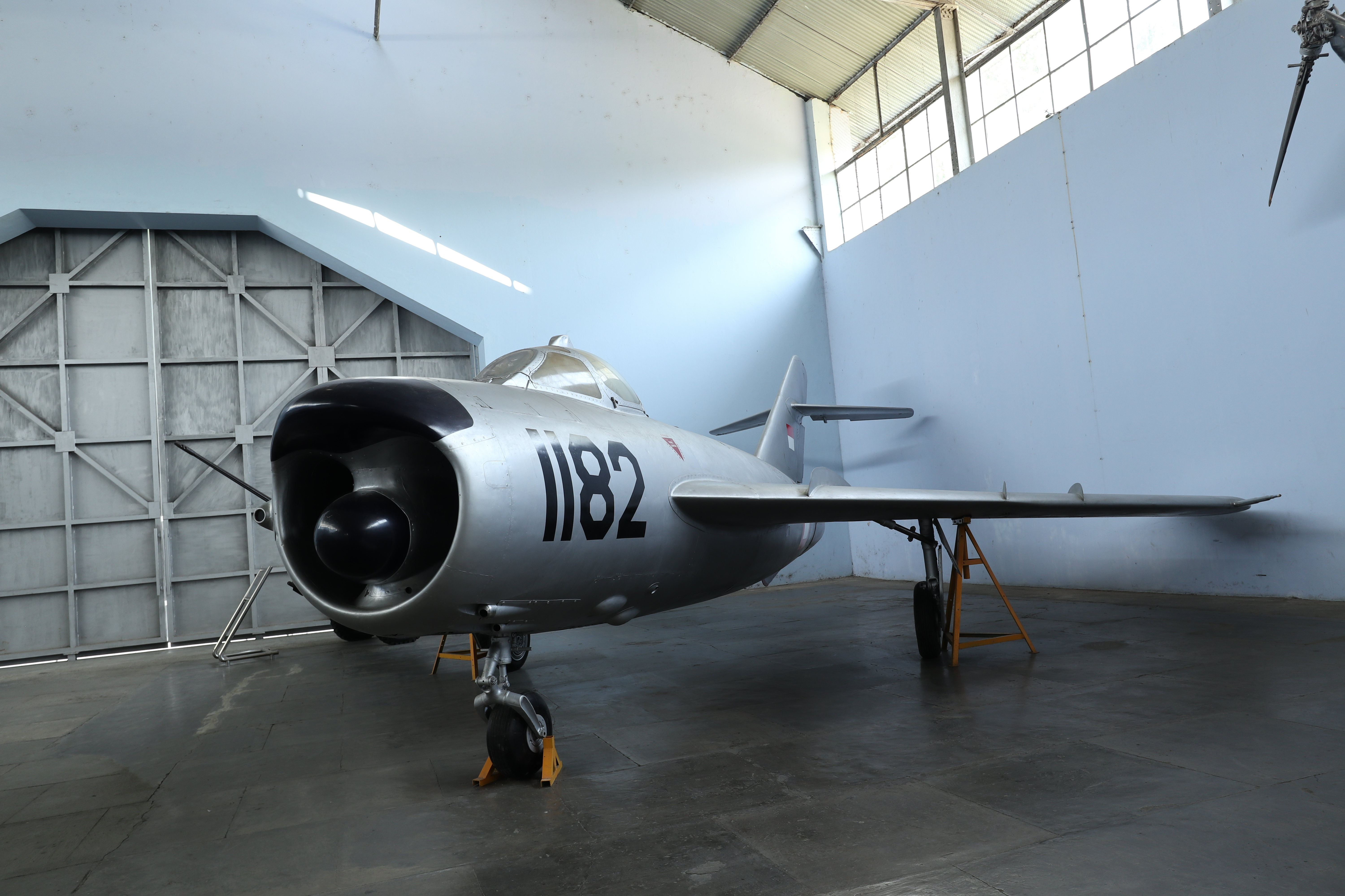 Pesawat MiG-17-Fresco